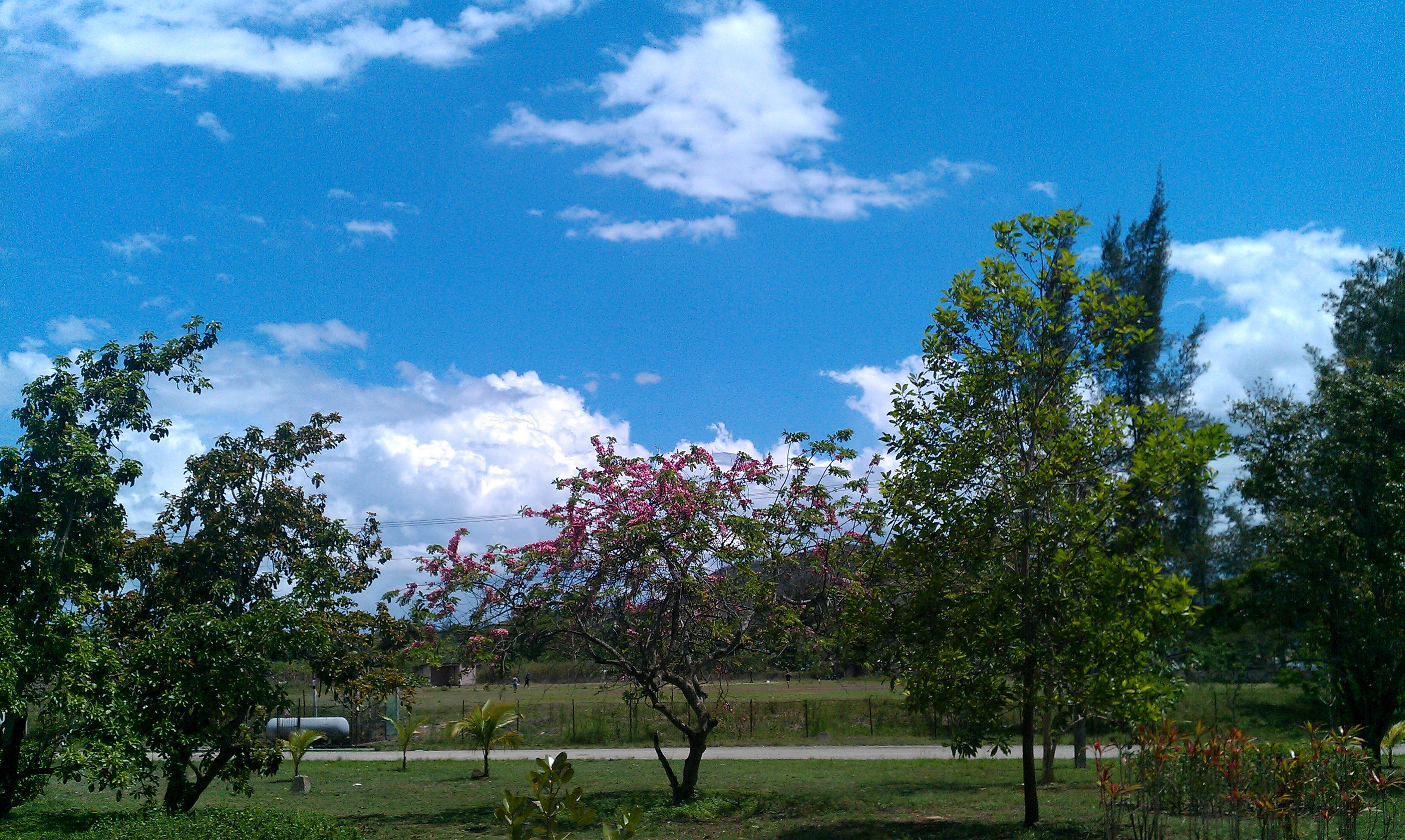 santa clara, Cuba.